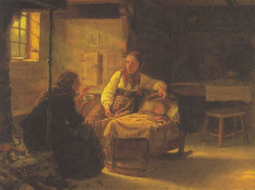 a folk magic ritual. The old woman is performing a divination to determine the cause of the child's illness as the mother watches.